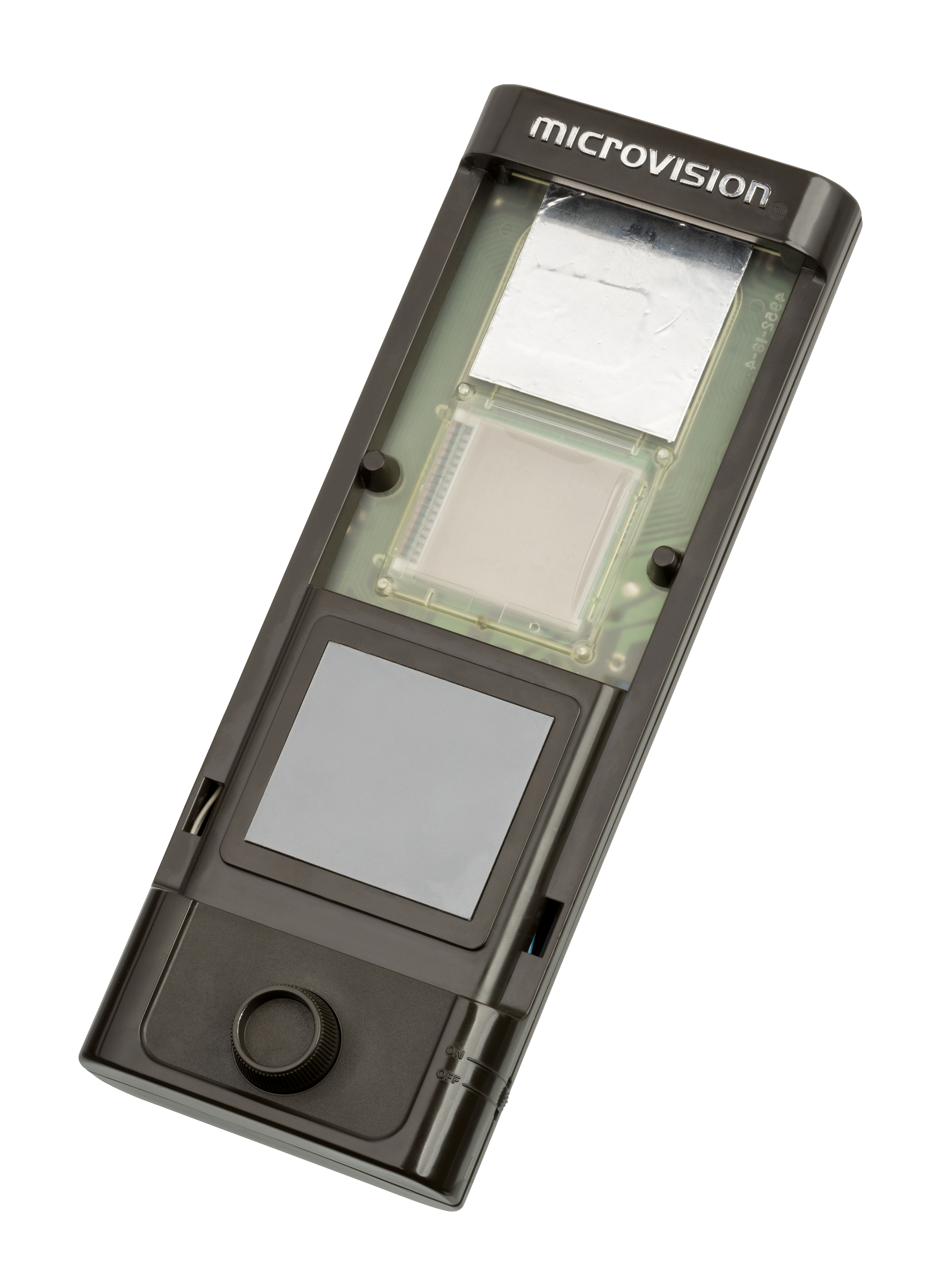 The Milton Bradley Microvision with the game cartridge removed, the first handheld gaming console released in 1979. Built around a 16x16 LCD screen, a grid of touch controls and a paddle, the Microvision could play very simple games. These games came on interchangeable face plates that stored the main processor and custom overlays. The system's limitations lead to little support after the initial launch, and the Microvision was discontinued by 1981.